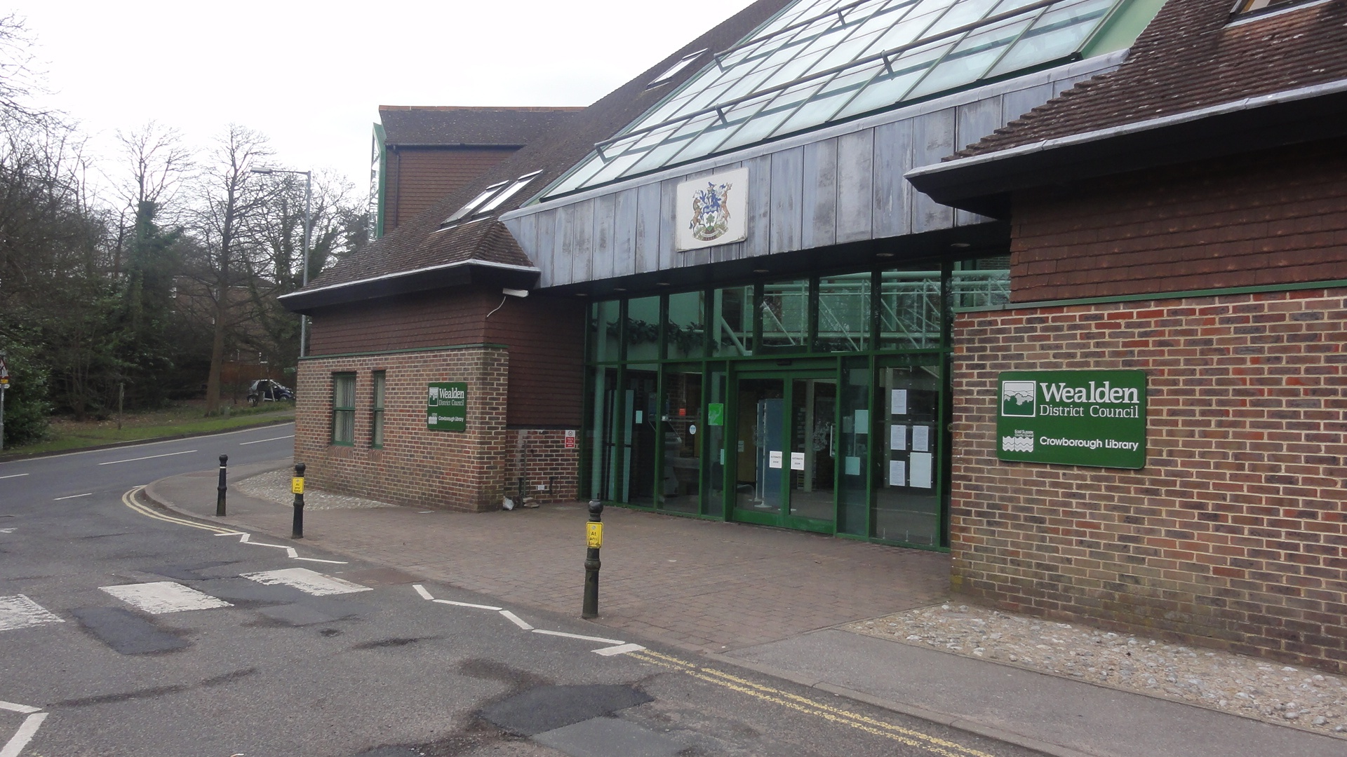 The exterior of the building housing the offices of Wealden District Council and Crowborough Library, in Crowborough, East Sussex.